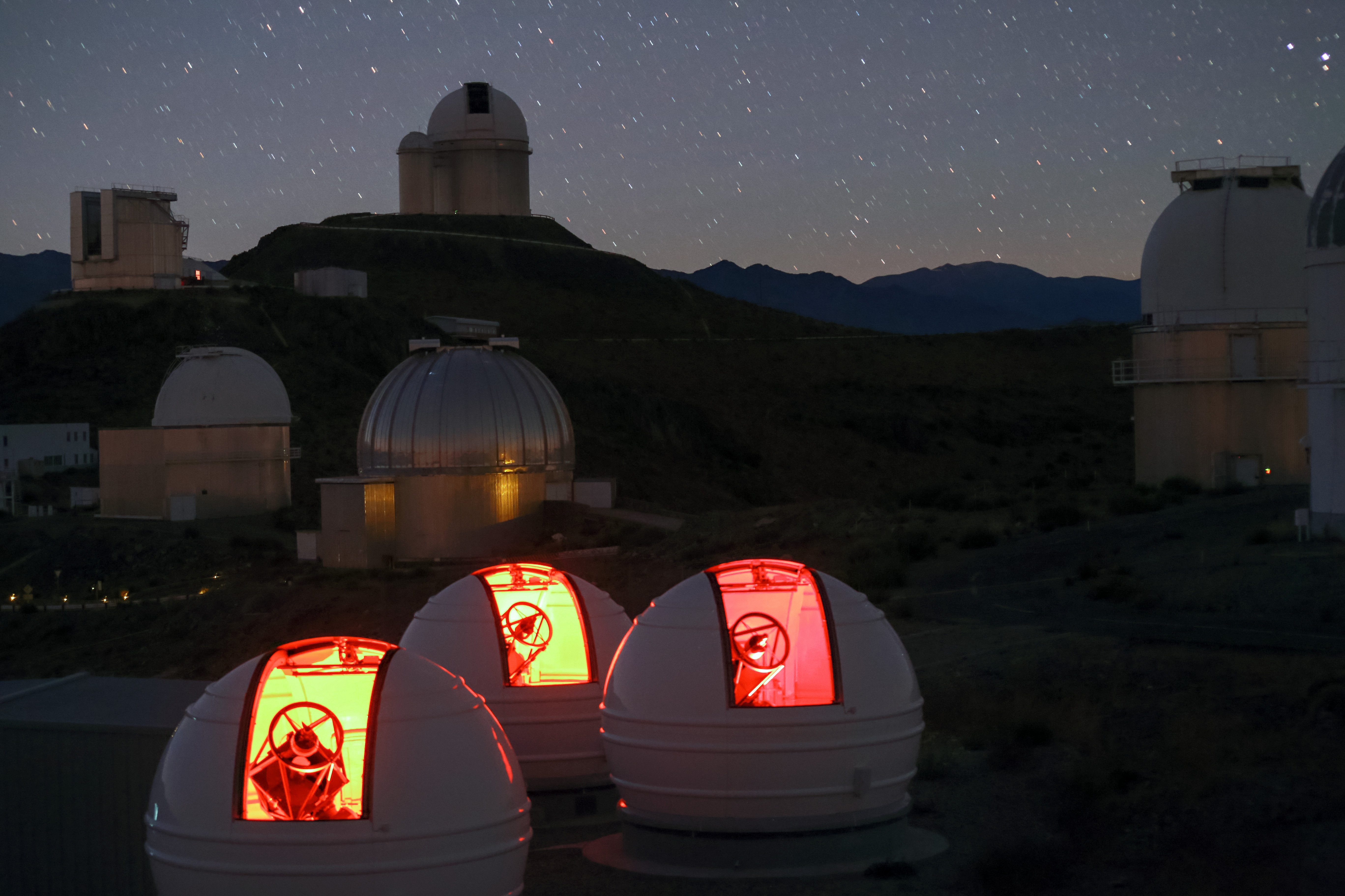 The ExTrA telescopes are sited at ESO’s La Silla Observatory in Chile. They will be used to search for and study Earth-sized planets orbiting nearby red dwarf stars. ExTrA’s novel design allows for much improved sensitivity compared to previous searches. This nighttime view shows the three ExTra domes in the foreground and many of the other telescopes at ESO’s La Silla Observatory behind.